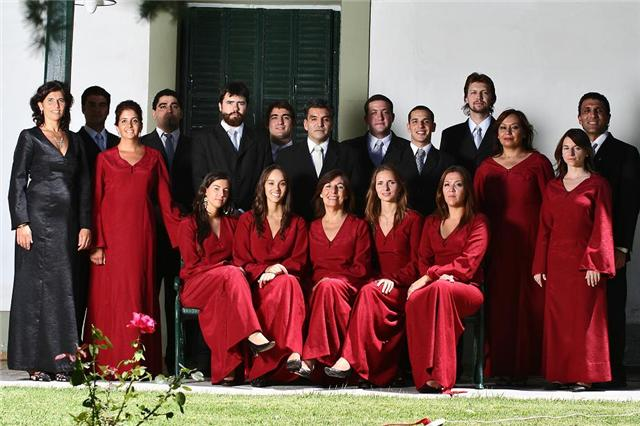 Coro Universitario de Mendoza de la UNCuyo